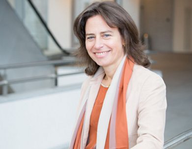 Portrait de Dominique Leroy